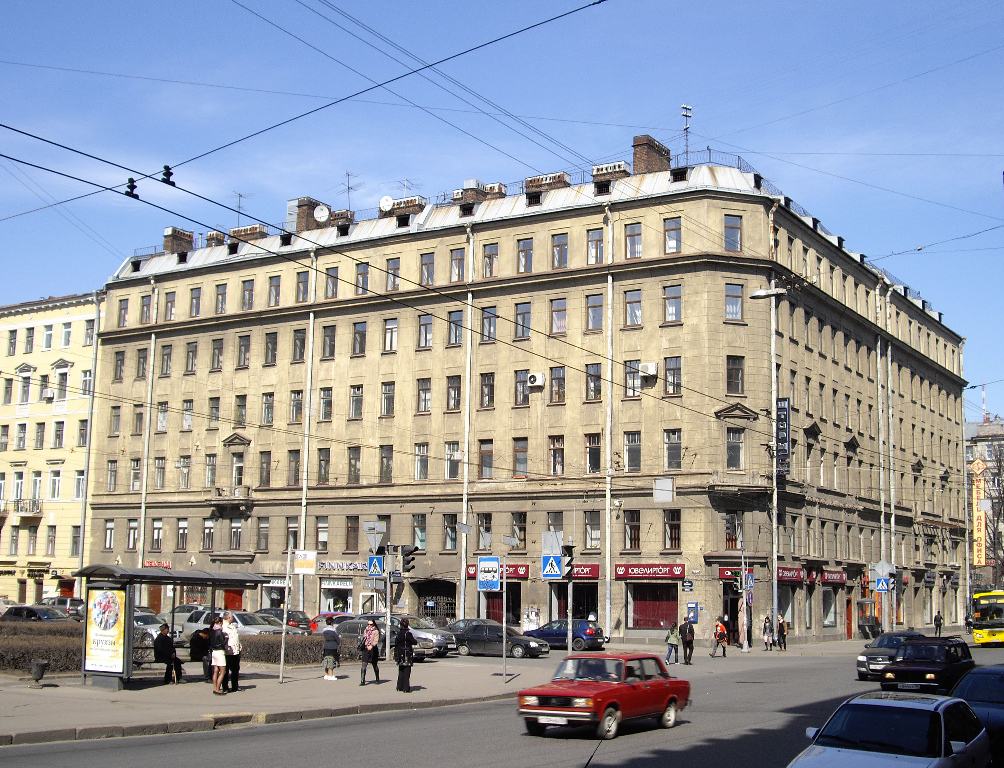 Bolshoy Prospekt (Petrograd Side) in Saint Petersburg at the crossing with Lenina Street (building number 66/9)